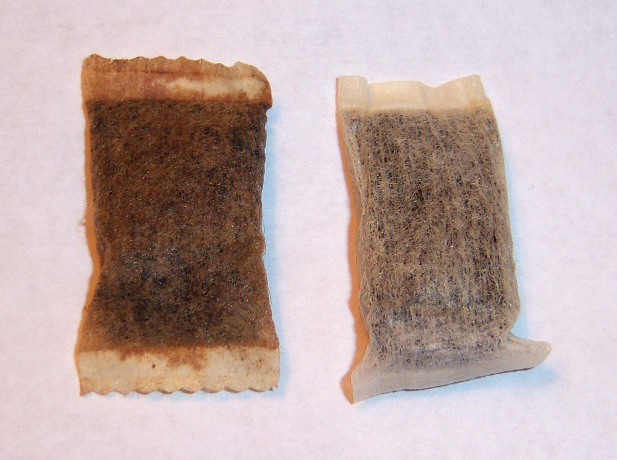 Comparison of snus portion types. Left is "regular" or "original" portion. Right is "white" portion. "White portion" can be any color, the name refers to the style, not the color.